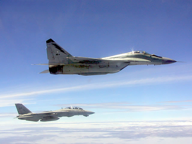 A U.S. Navy Grumman F-14D Tomcat from fighter squadron VF-31 Tomcatters and Royal Malaysian Air Force Mikoyan-Gurevich MiG-29N in flight.